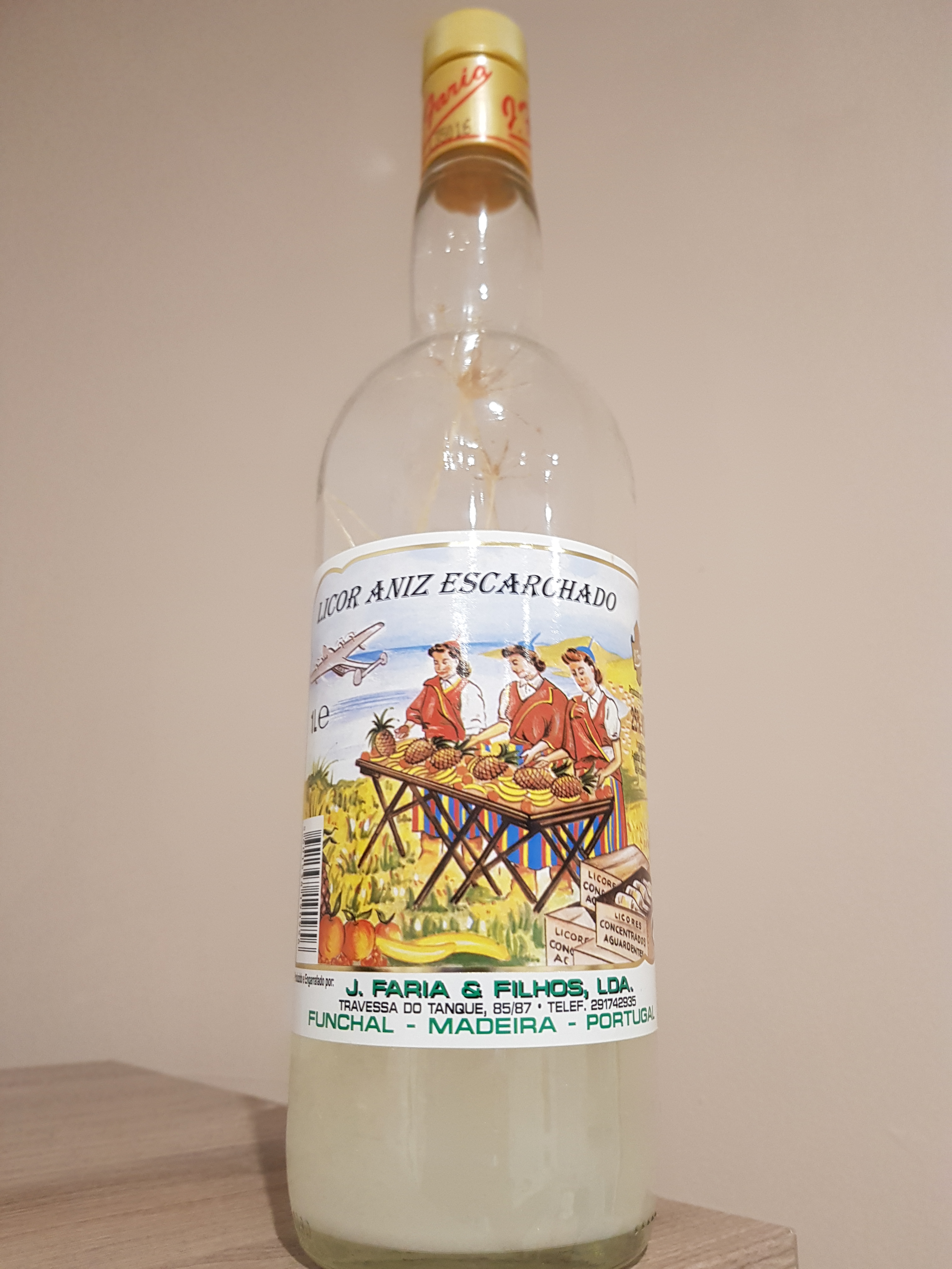 licor aniz escarchado, Madeira